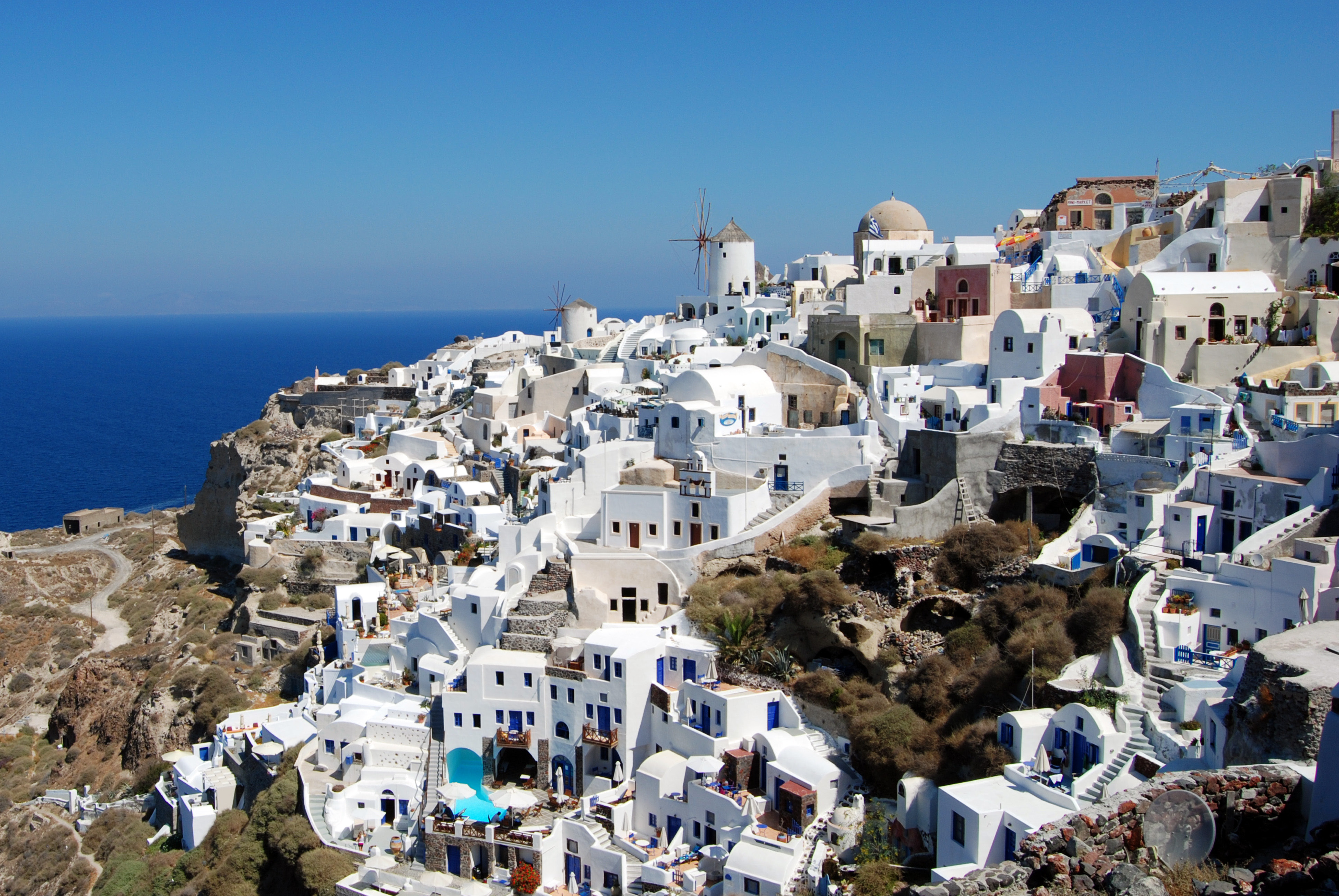 Santorini (Greek: Σαντορίνη, pronounced [ˌsa(n)do̞ˈrini]) is a small, circular archipelago of volcanic islands located in the southern Aegean Sea, about 200 km (120 mi) southeast from Greece's mainland. The largest island is known as Thēra (or Thira, Greek Θήρα [ˈθira]), forming the southernmost member of the Cyclades group of islands, with an area of approximately 73 km2 (28 sq mi) and a 2001 census population of 13,670. It is composed of the Municipality of Thira (pop. 12,440) and the Community of Oía (Οία, pop. 1,230, which includes 268 inhabitants resident on the offshore island of Therasia, lying to the west).